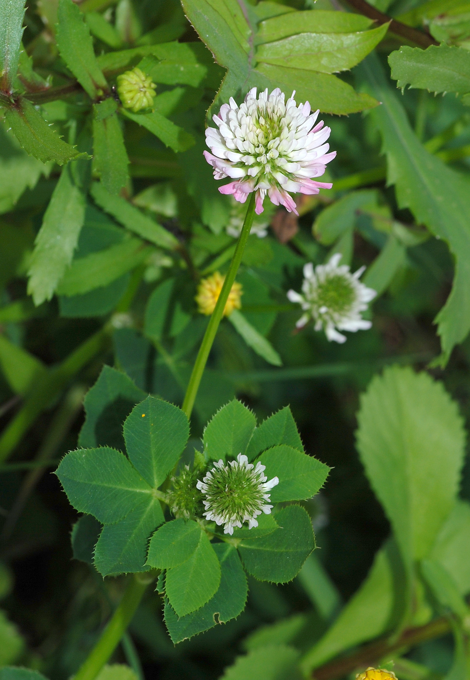 A clover Trifolium sp. (possibly T. hybridum?).